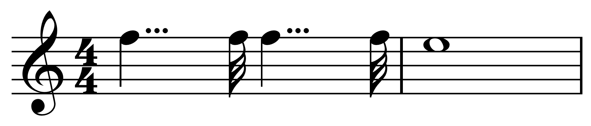 Sample triple-dotted notes.